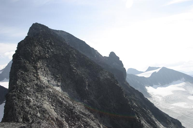 Photo shop August 14. 2006. Skarstind seen from the west